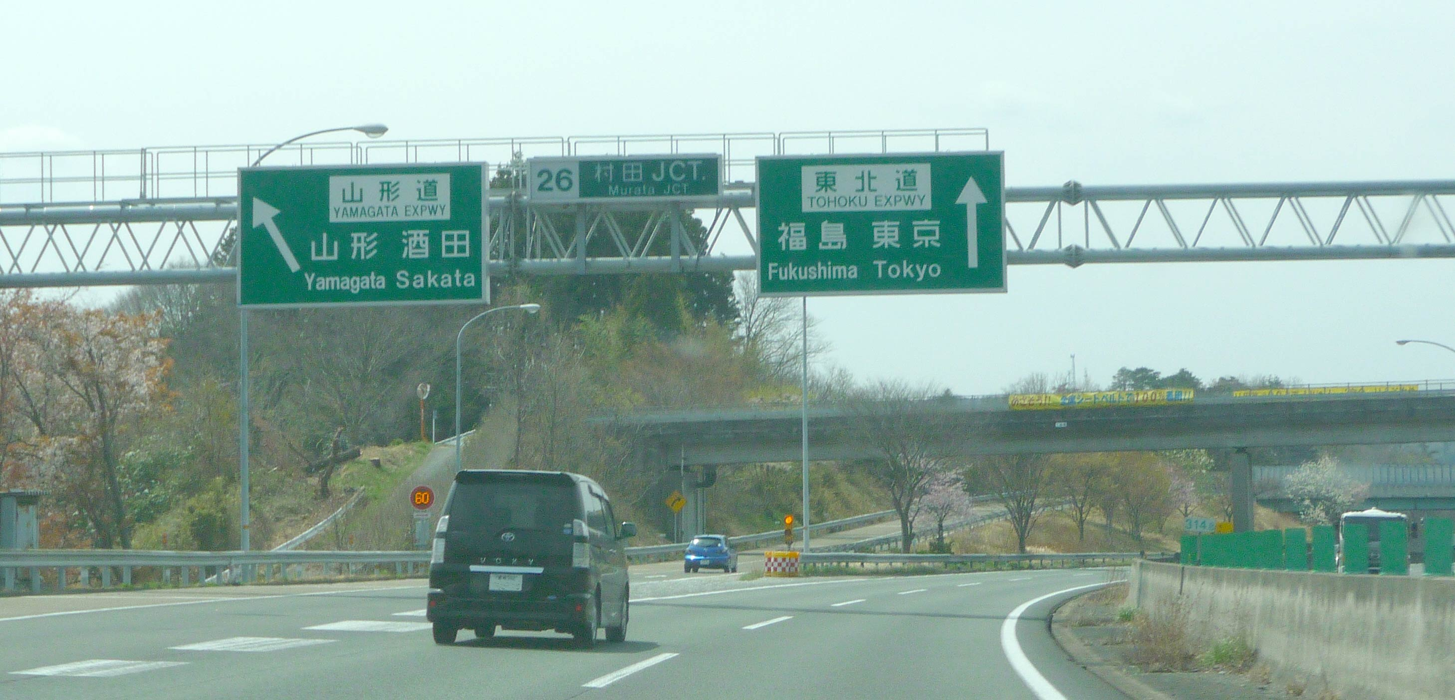 Tohoku Expressway Murata JCT